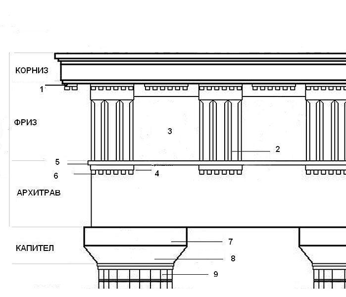 Scheme of Doric entablature, 1-mutulo, 2-triglifo, 3-metopa, 4-regula, 5-tenia, 6-gota, 7-abaco, 8-equino, 9-fluting